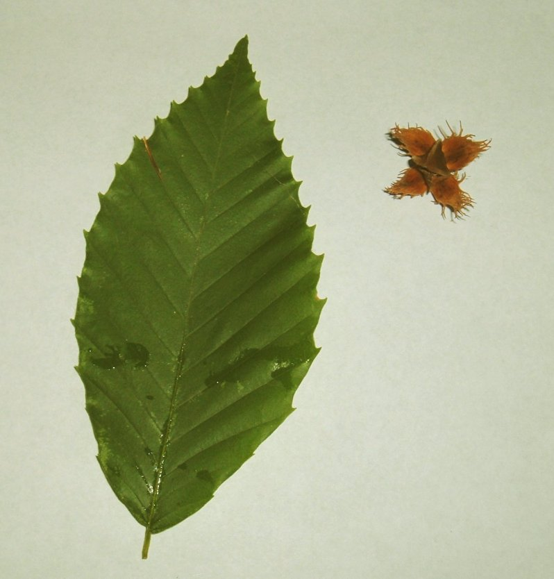 A leaf of an American Beech (Fagus grandifolia) and its opened seed.